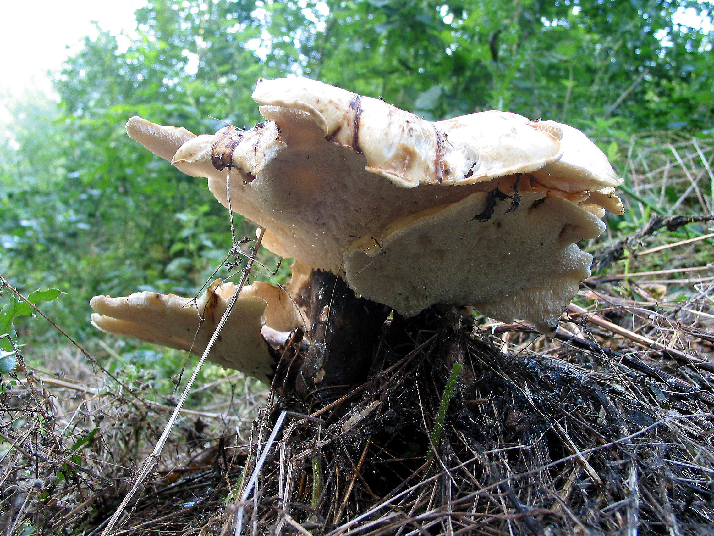 Dryad's saddle and Pheasant's back mushroom